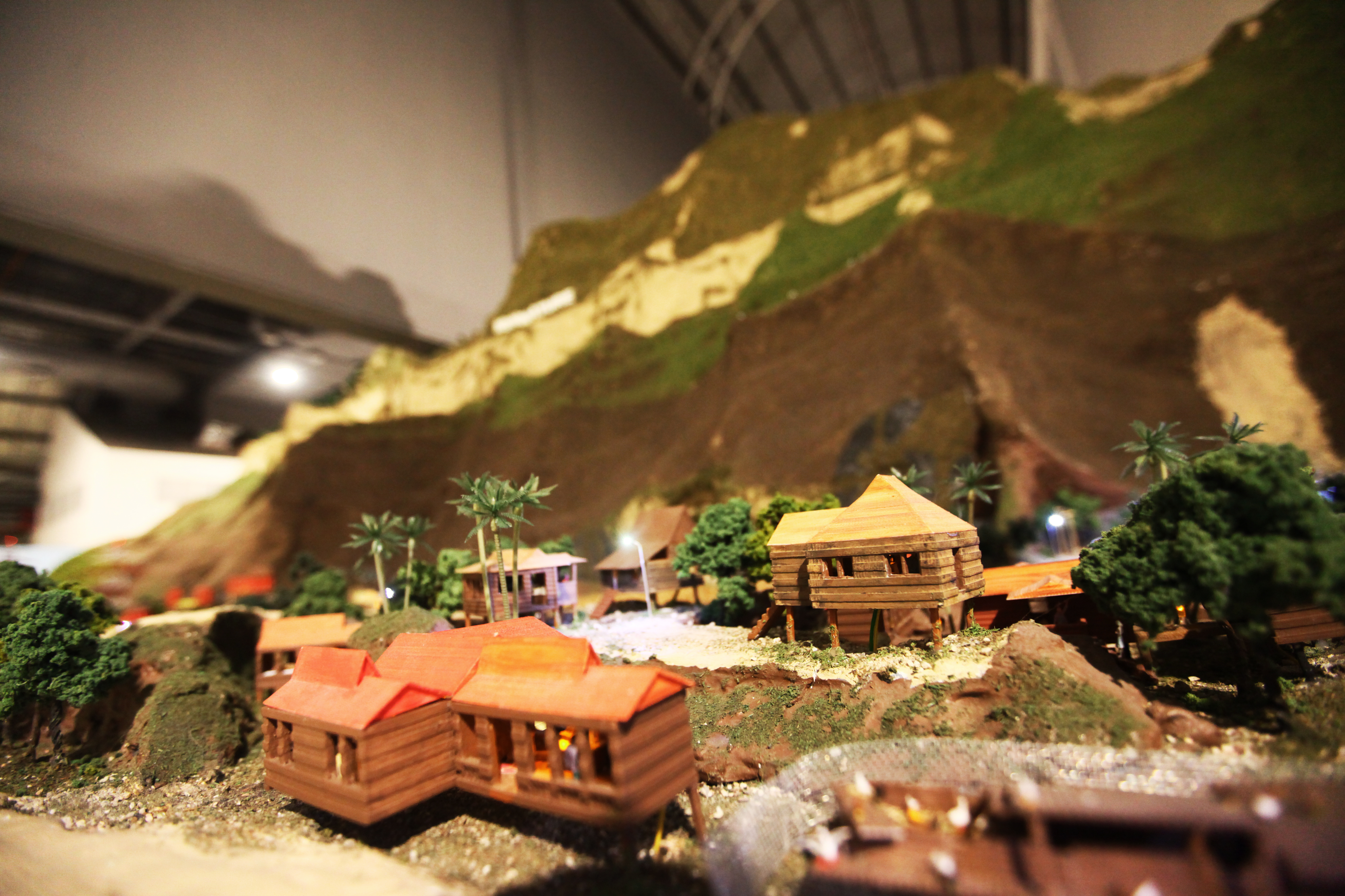 Kampung Scene of MinNature